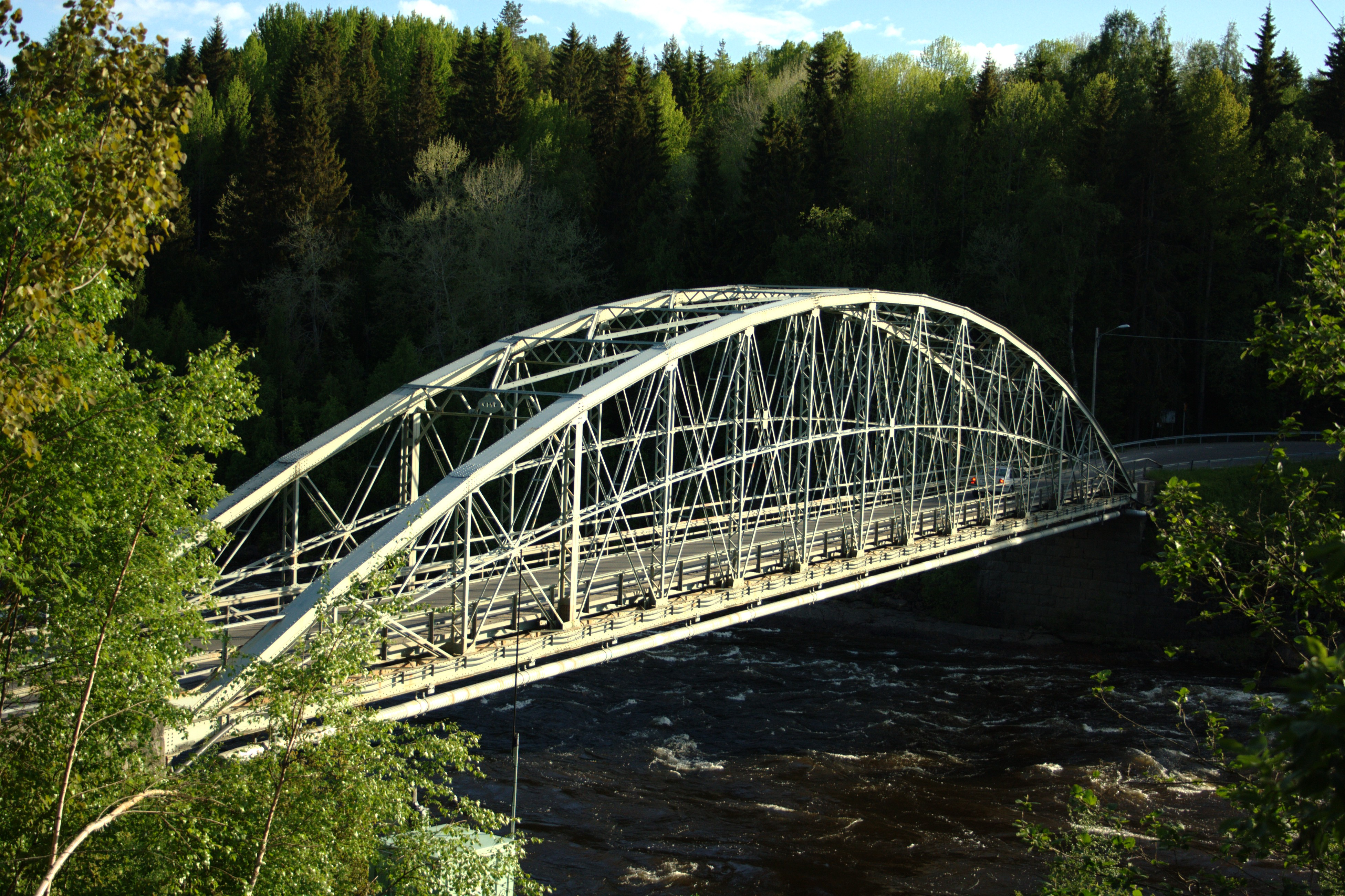 Sörfors bridge, Sweden